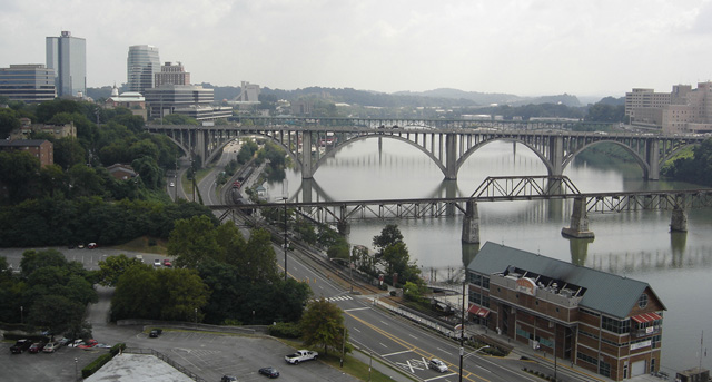 Tennessee River. I (Zereshk) took this photo and allow its use by GFDL.